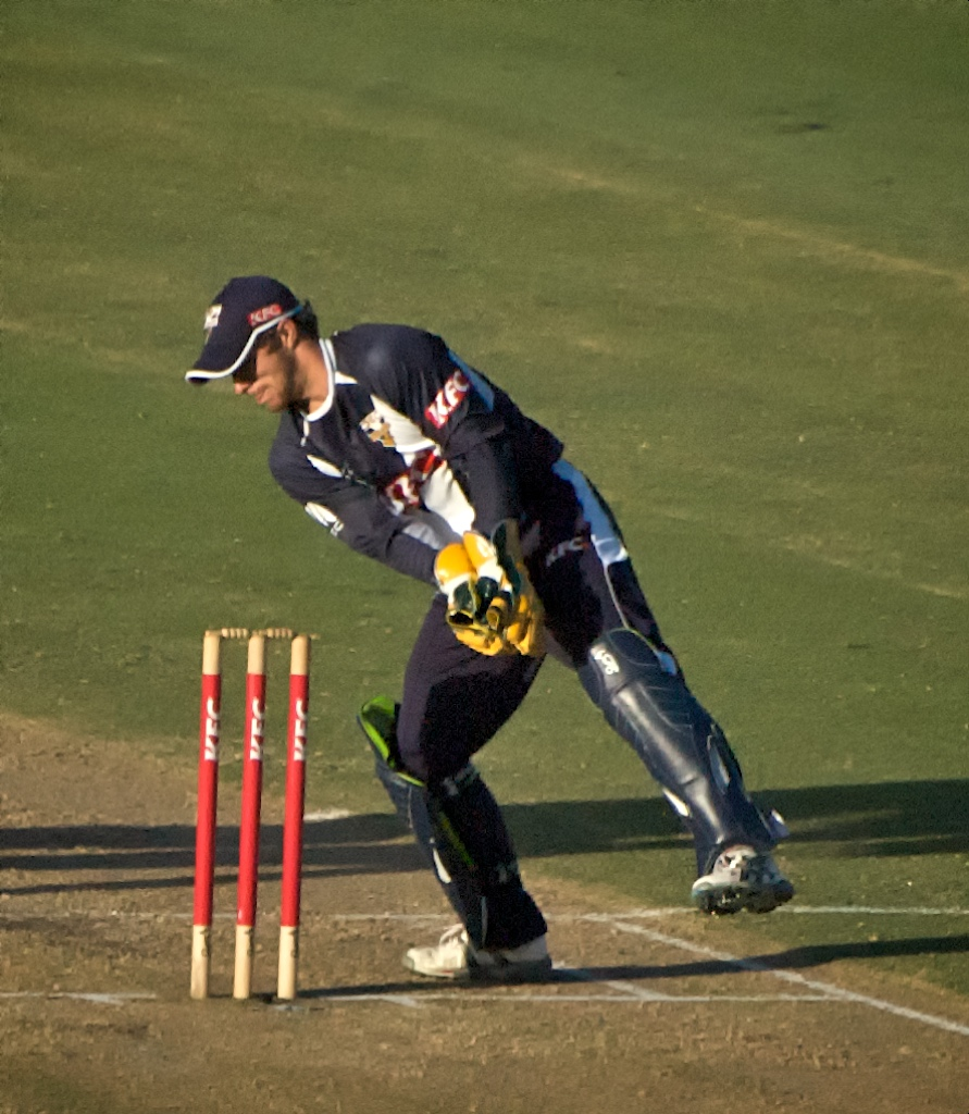 Matthew Wade at KFC Twenty20 BigBash - WA v VIC, 10 January 2010, WACA Ground